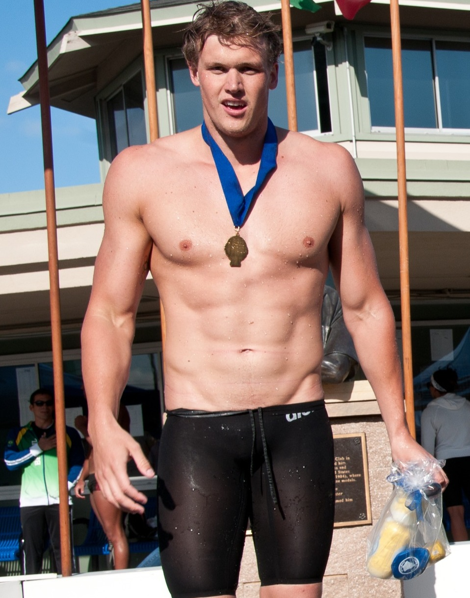 Kenrick Monk and Ricky Berens at the 2010 Santa Clara Grand Prix. Photo copyright by JD Lasica. for republication rights.